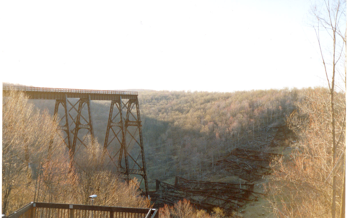 The Kinzua Viaduct (Bridge), Pennsylvania. Author: existent80 Picture taken April 7, 2005.